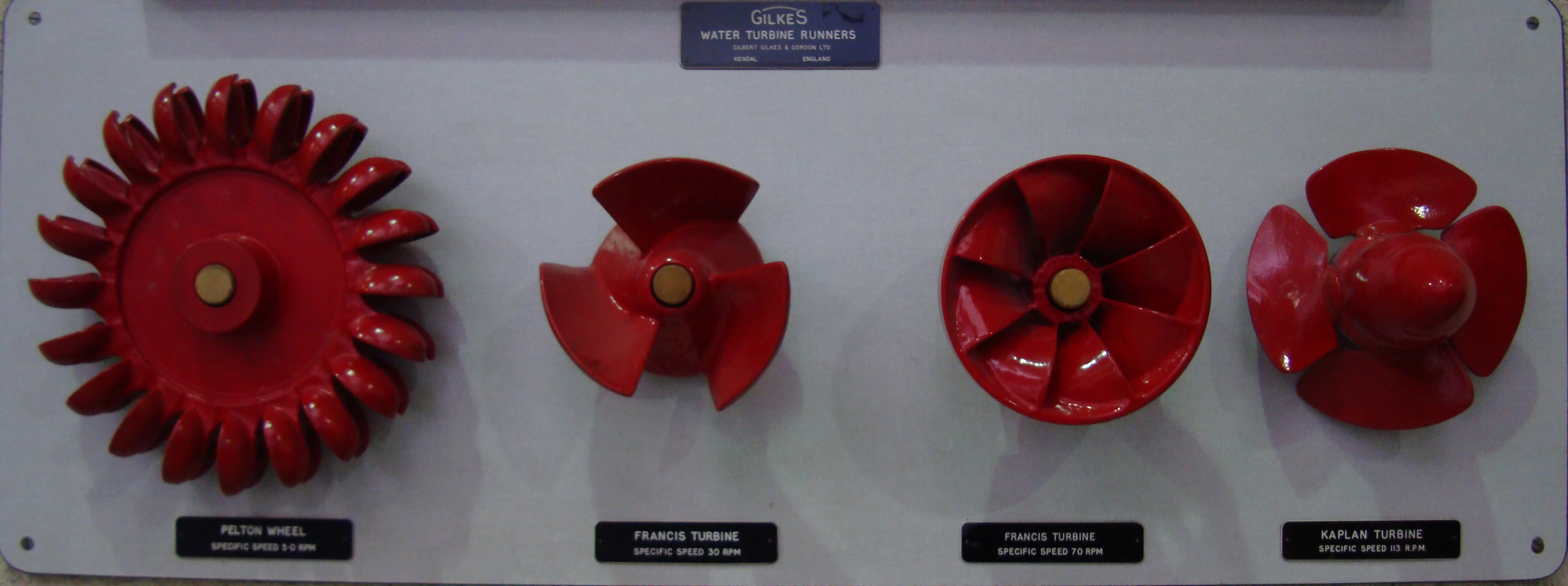 Various types of water turbine runners. From left to right: Pelton Wheel - Specific Speed 5.0 rpm Francis Turbine - Specific Speed 30 rpm Francis Turbine - Specific Speed 70 rpm Kaplan Turbine - Specific Speed 113 rpm